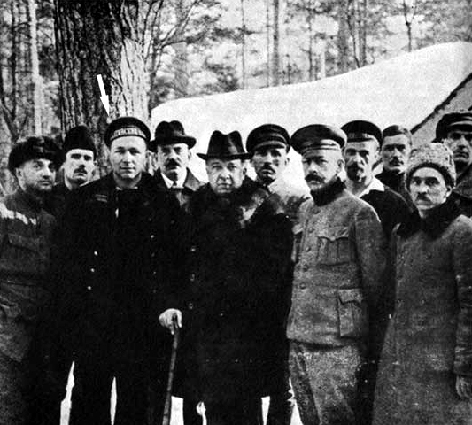 Stepan Petrichenko (arrow), leader of the Kronstadt rebellion among russian oppositionists and emigrants in Finland.